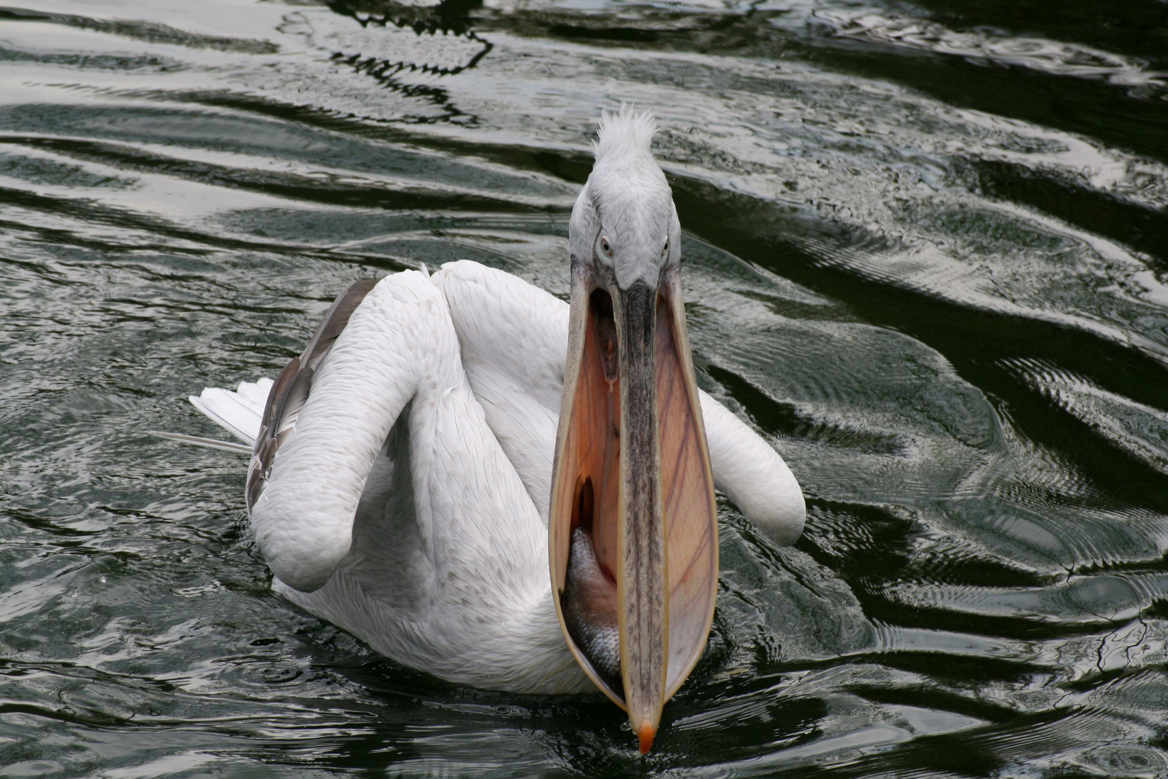 Dalmatian Pelican (Pelecanus crispus) eating fish, Herberstein zoo, Styria, Austria, Europe